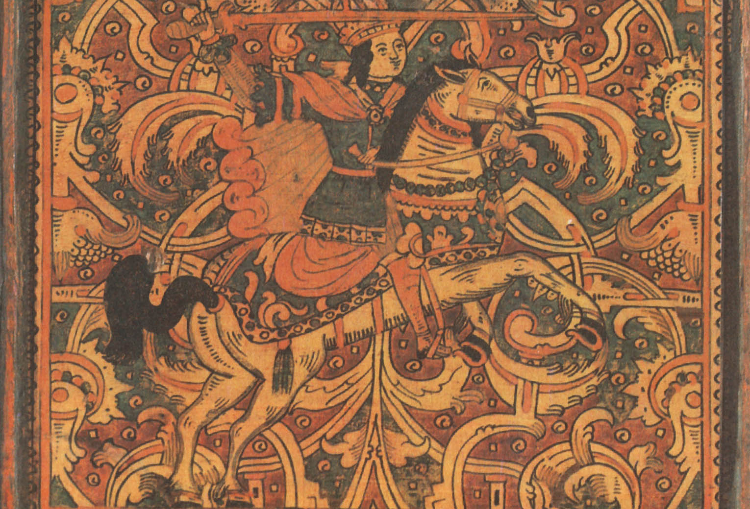 Bova Korolevich (protagonist of a Russian romance of chivalry). Folk painting on a chest. Velikiy Ustyug, Russia, XVIIth century.